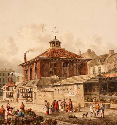 An 1815 painting of the slum district Clare Market in London by the artist Thomas Hosmer Shepherd.